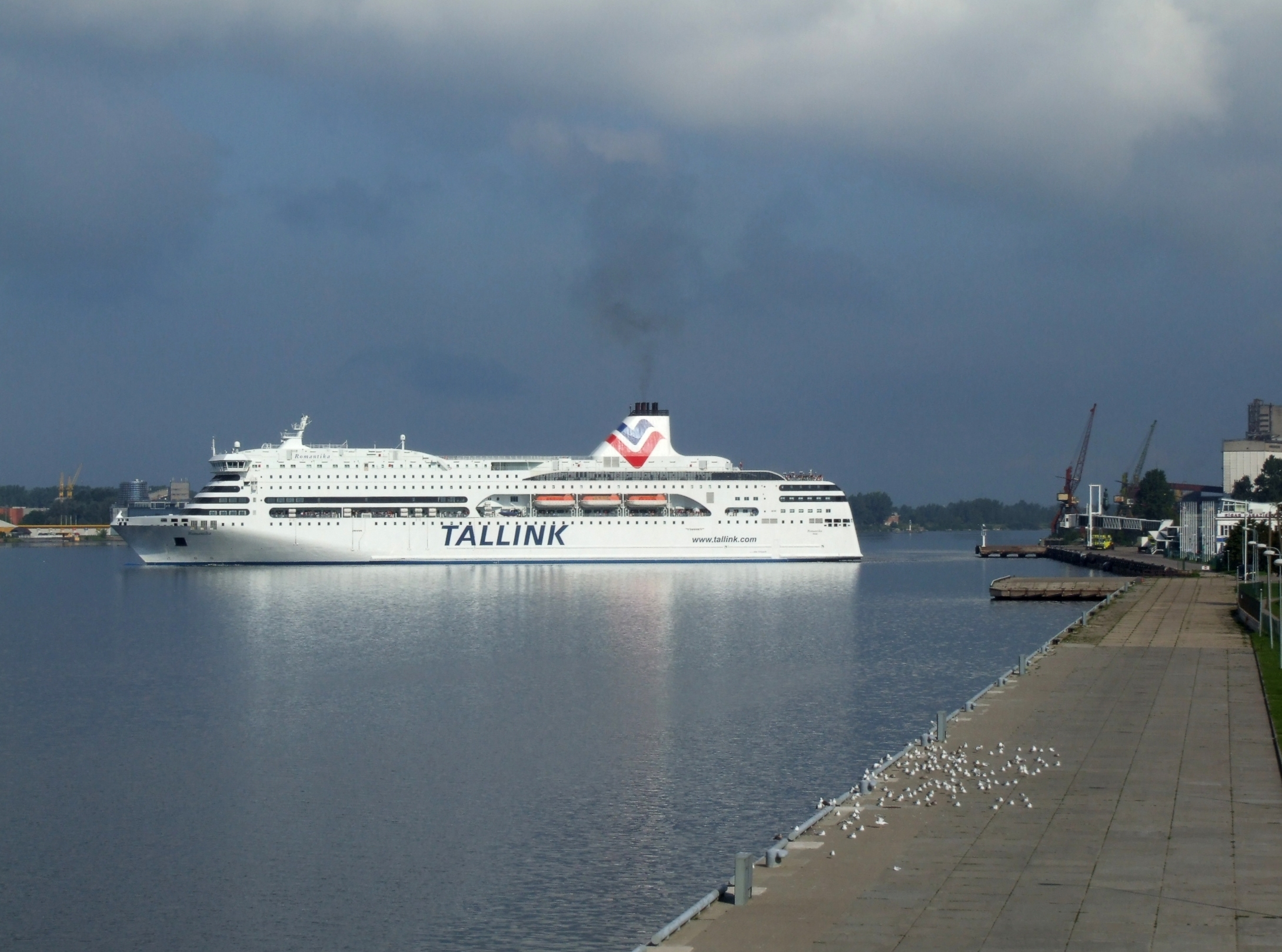 MS Romantika (Tallink) in Riga